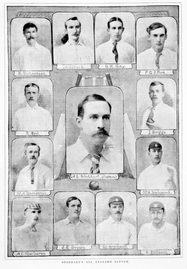 Photographs of A. E. Stoddart's English cricket team which toured Australia in 1894–95.